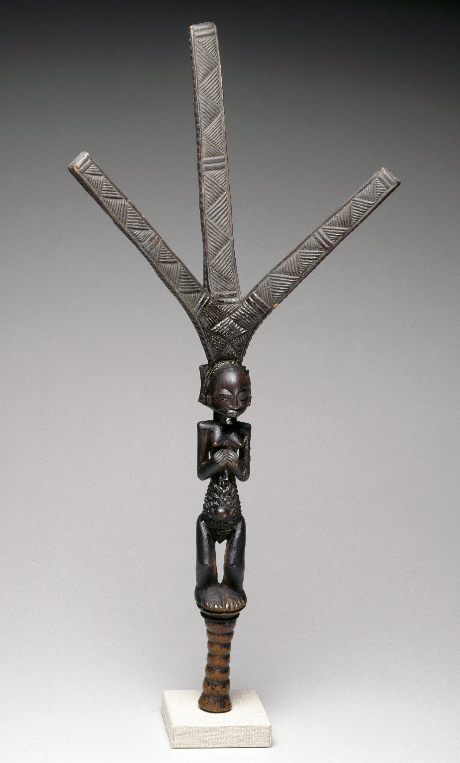 Standing female figure arms bent hands resting between breasts. Scarification on abdomen and elaborate headdress. There is a three pronged projection carved with patterns at top of head. Condition: Chipped and cracked.